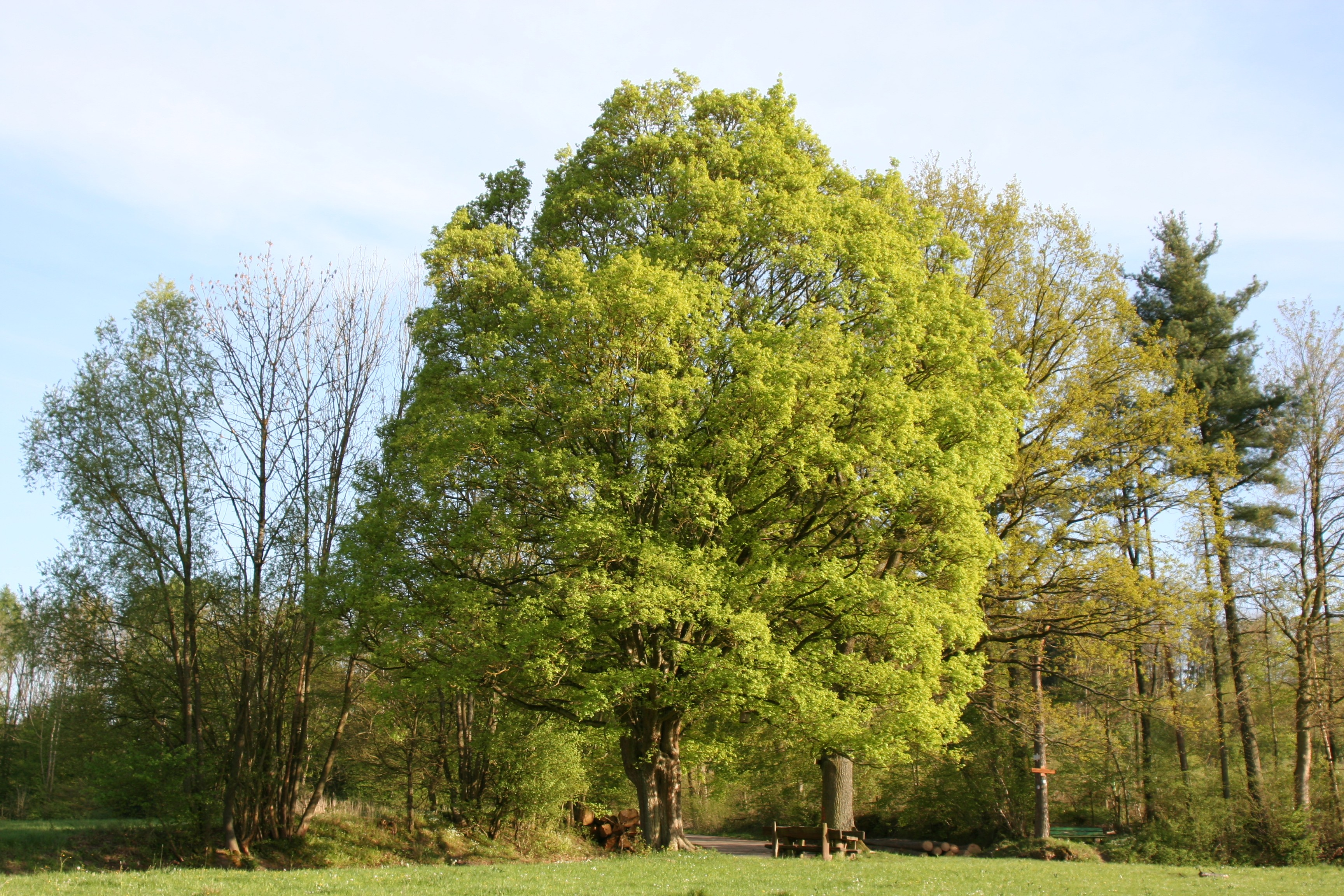 Acer campestre in Weinsberg